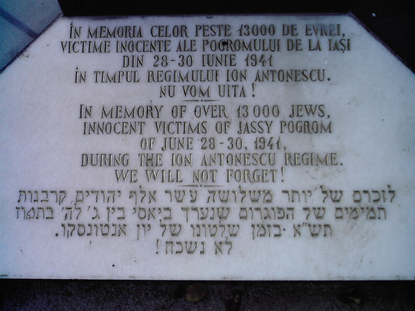 Victims of Iași Pogrom Monument, Iași (Iassy), Romania